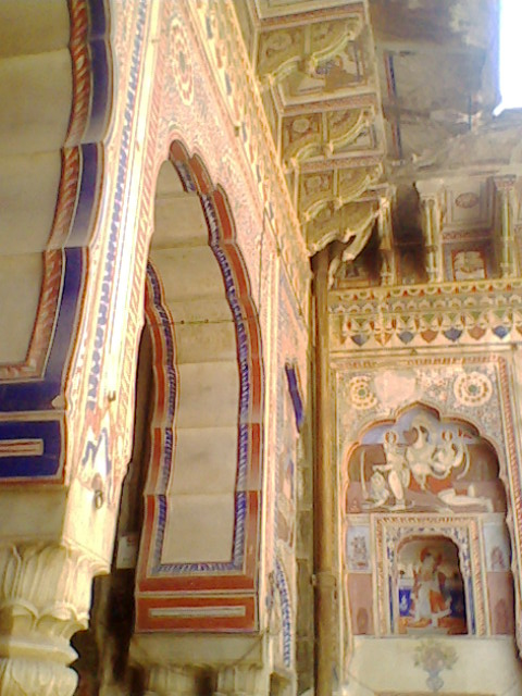 Temple built by Shekhawat rulers of Nawalgarh.